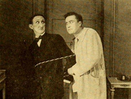 Still from the American film After His Own Heart (1919) with Frank Hayes and Hale Hamilton, on page 507 of the April 26, 1919 Moving Picture World.